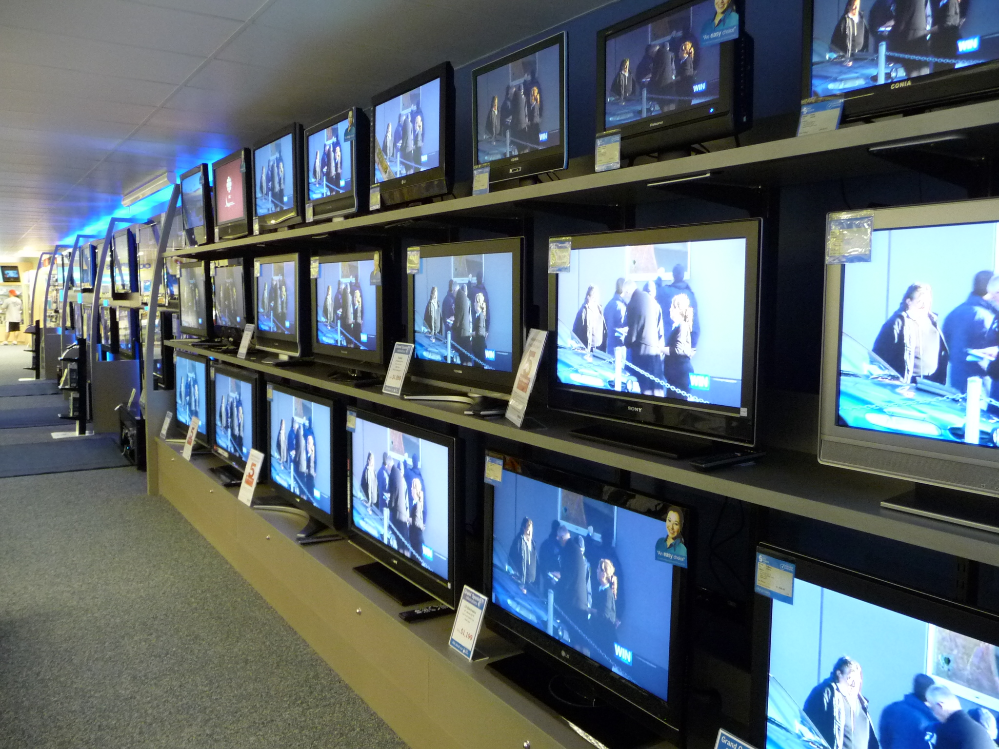 Televisions for consumer purchase